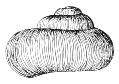 drawing of lateral view of the shell of Valvata sincera